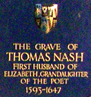 Plaque on Thomas Nash's grave